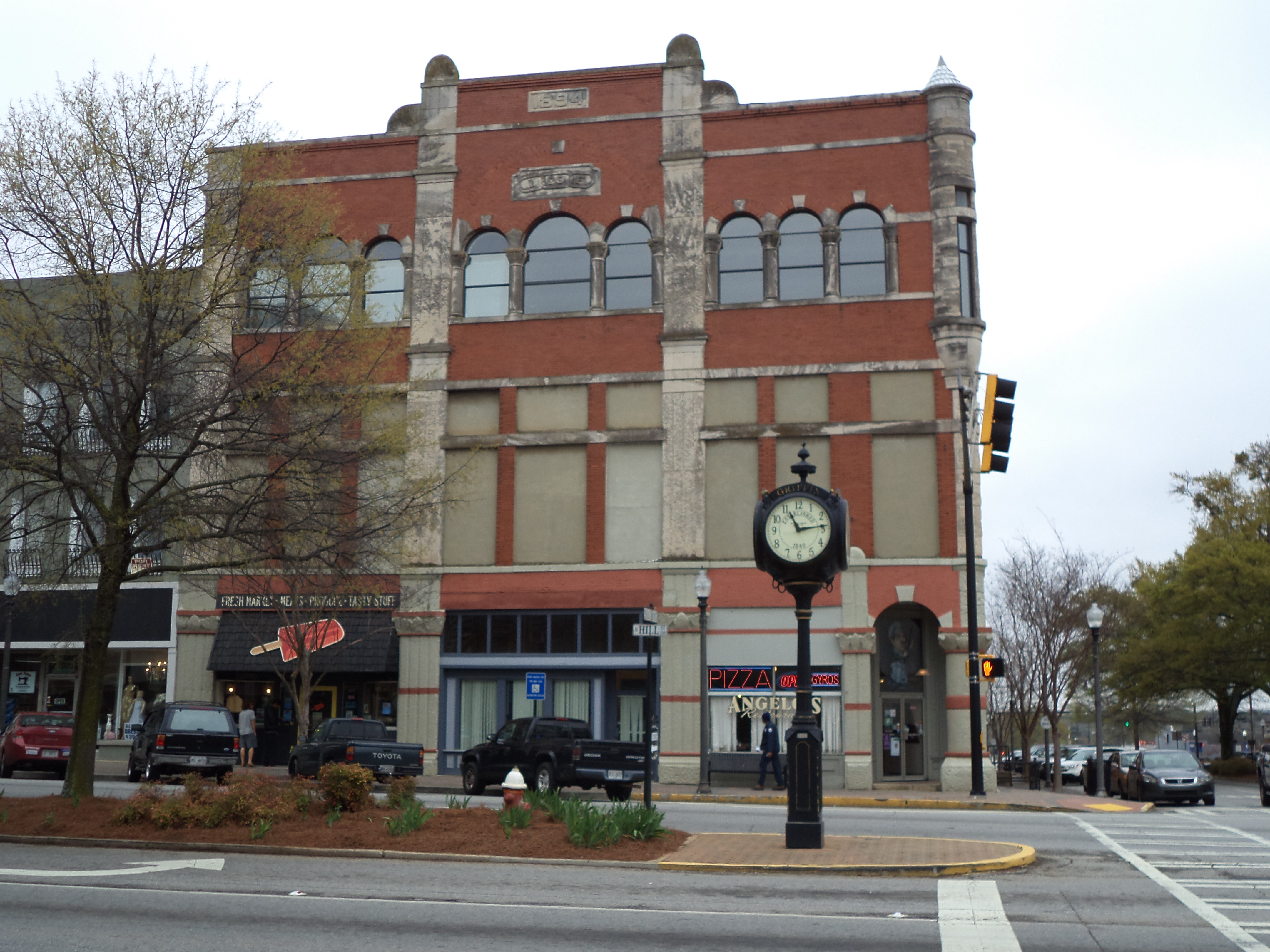 Historic looking building on the NE corner of N. Hill St. (GA 155) and E Solomon St., Griffin, Spalding County, Georgia